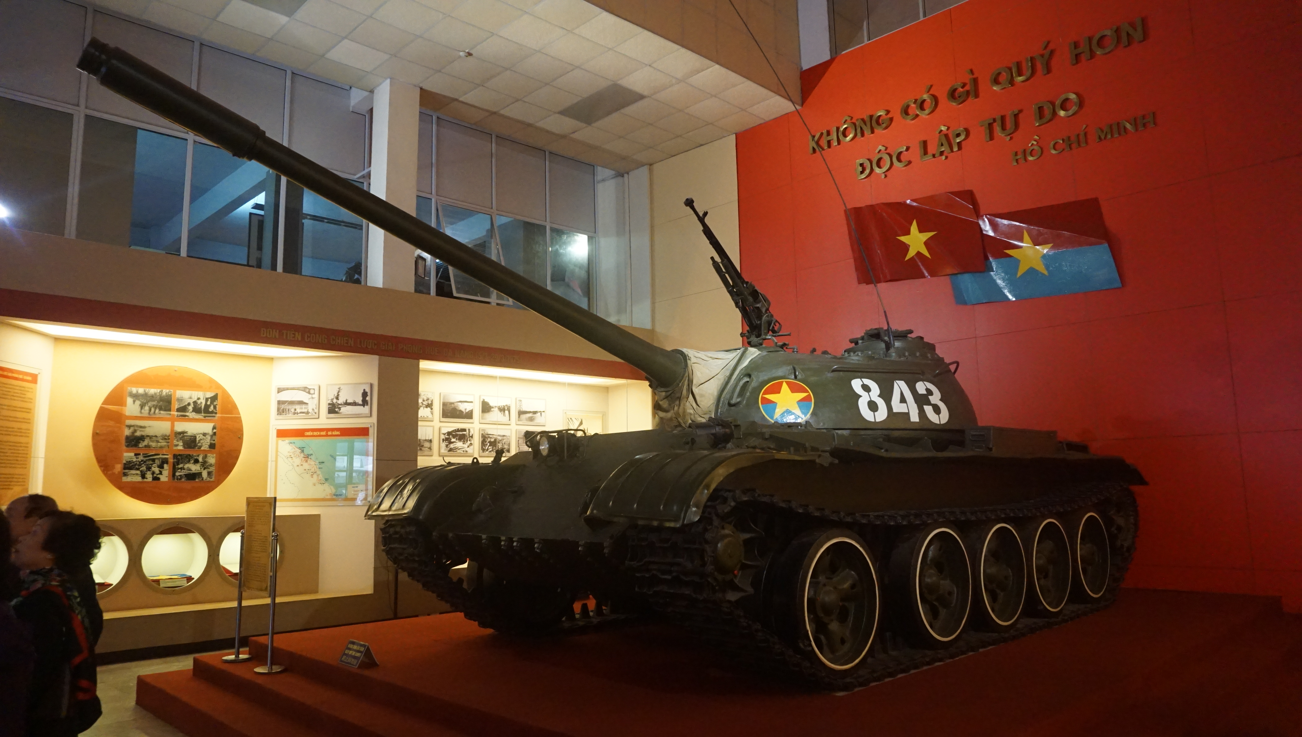 T-54 in the Vietnam Military History Museum. This tank advanced into SOuth Vietnamese presidential palace on April 30,1975